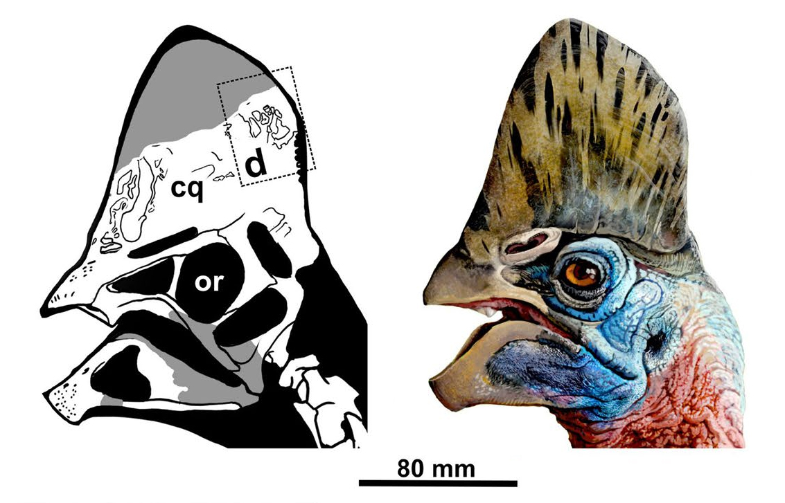 Corythoraptor appearance restoration